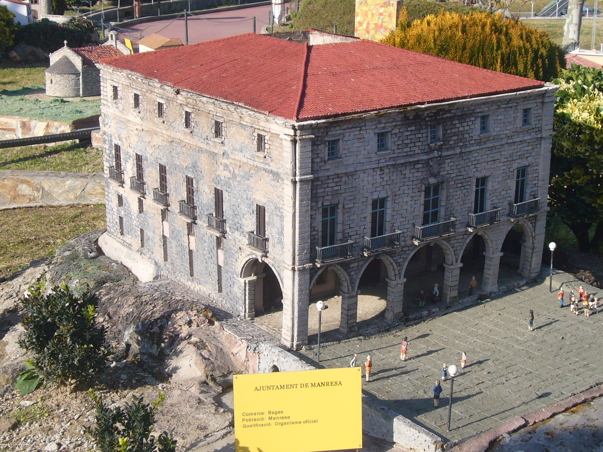 Scale model at the "Catalunya en Miniatura" miniature park : Manresa town hall building